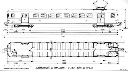 Drawing of SNCF Z 3800.